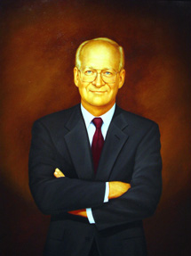 Robert L. Clarke Comptroller of the Currency, 1985 - 1992 Public Domain